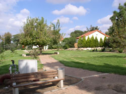 The "Tzur Garden" in the Sha'ar neighborhood in Gevim.